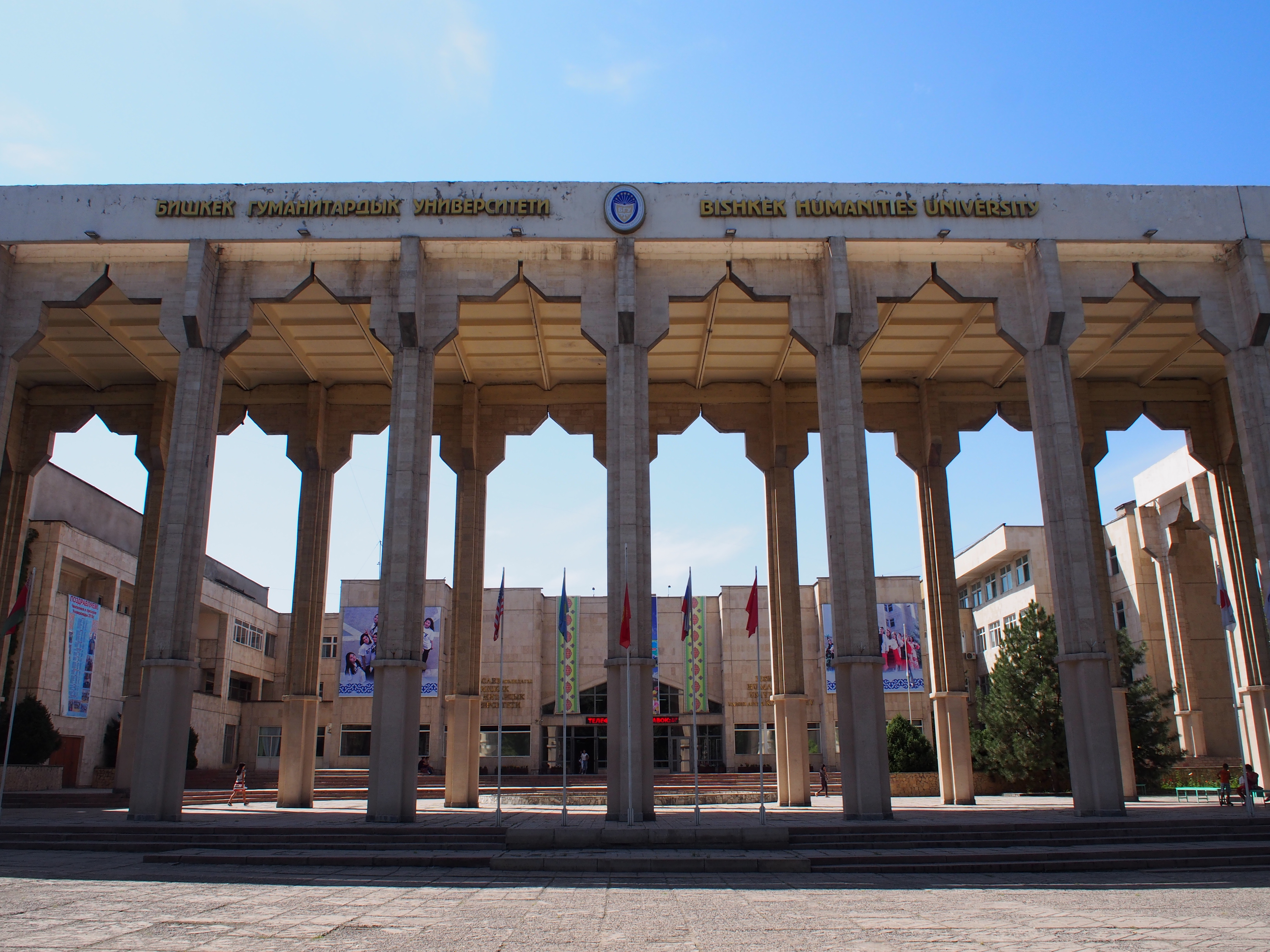 Bishkek Humanities Univ.